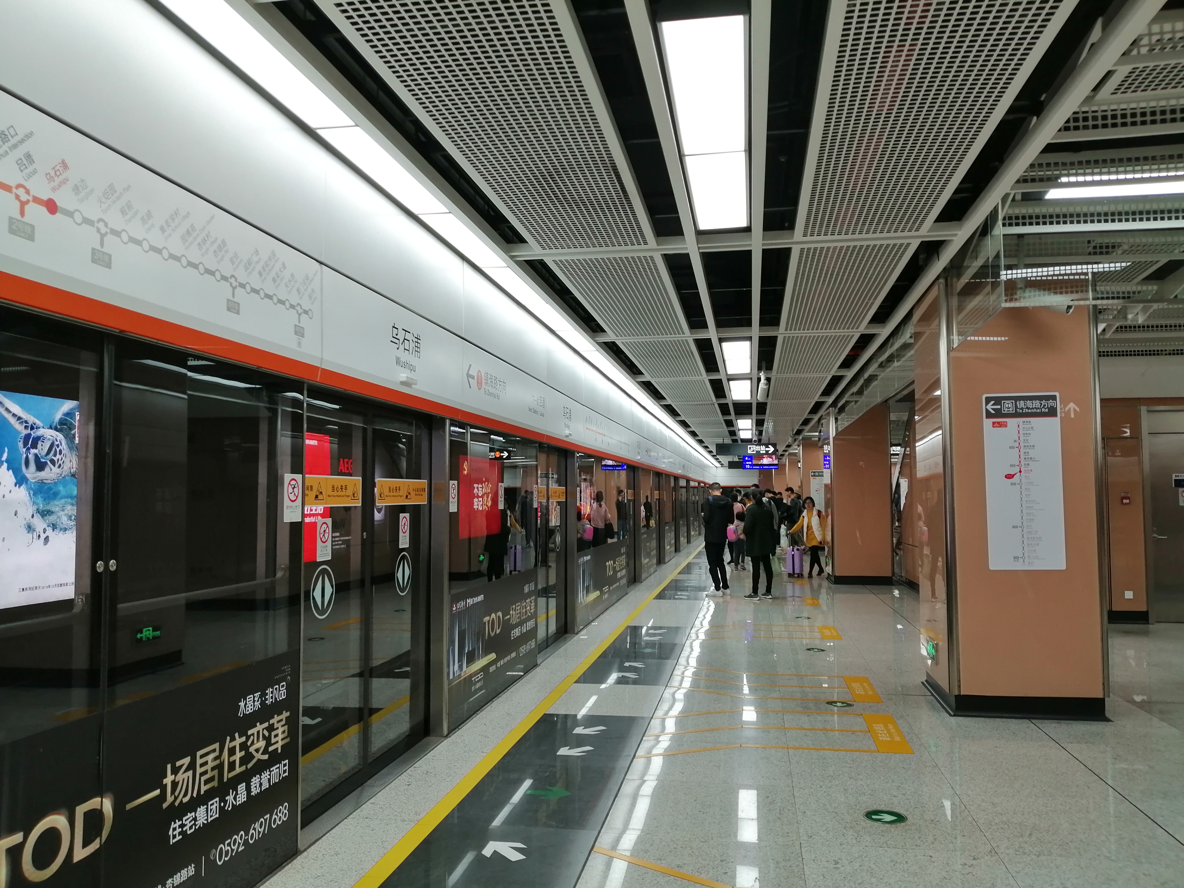 Platform of Wushipu station in Xiamen 中文（中国大陆）: 乌石浦站站台